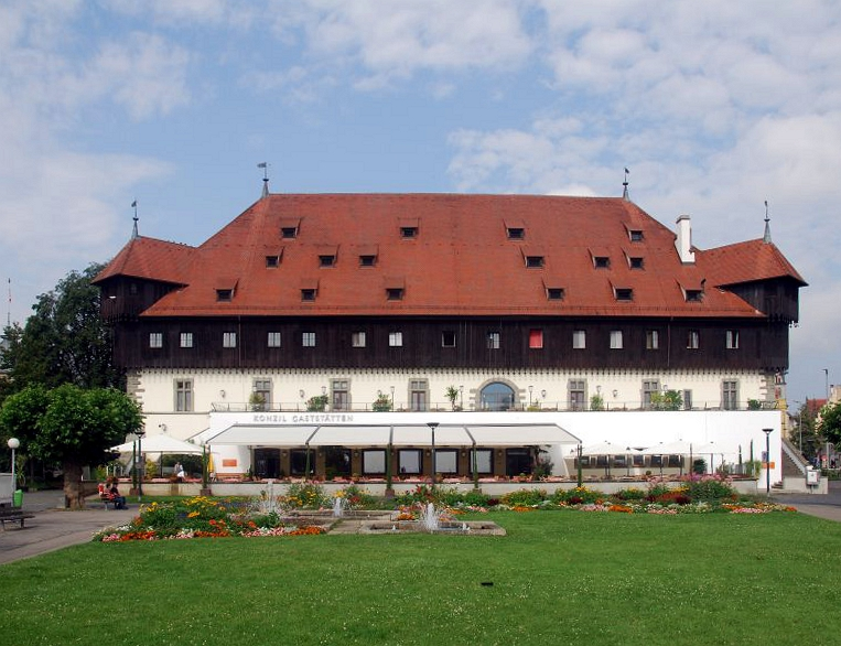 Building Council of Constance, Lake Constance with restaurant.